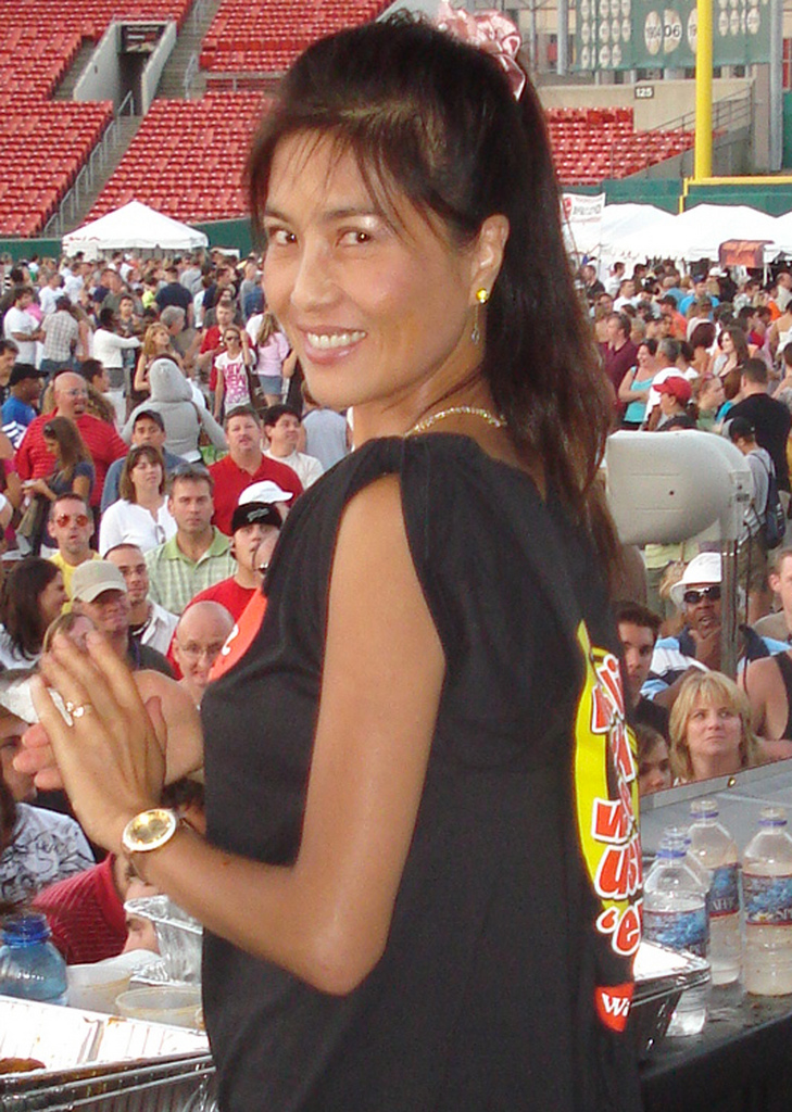 Juliet Lee